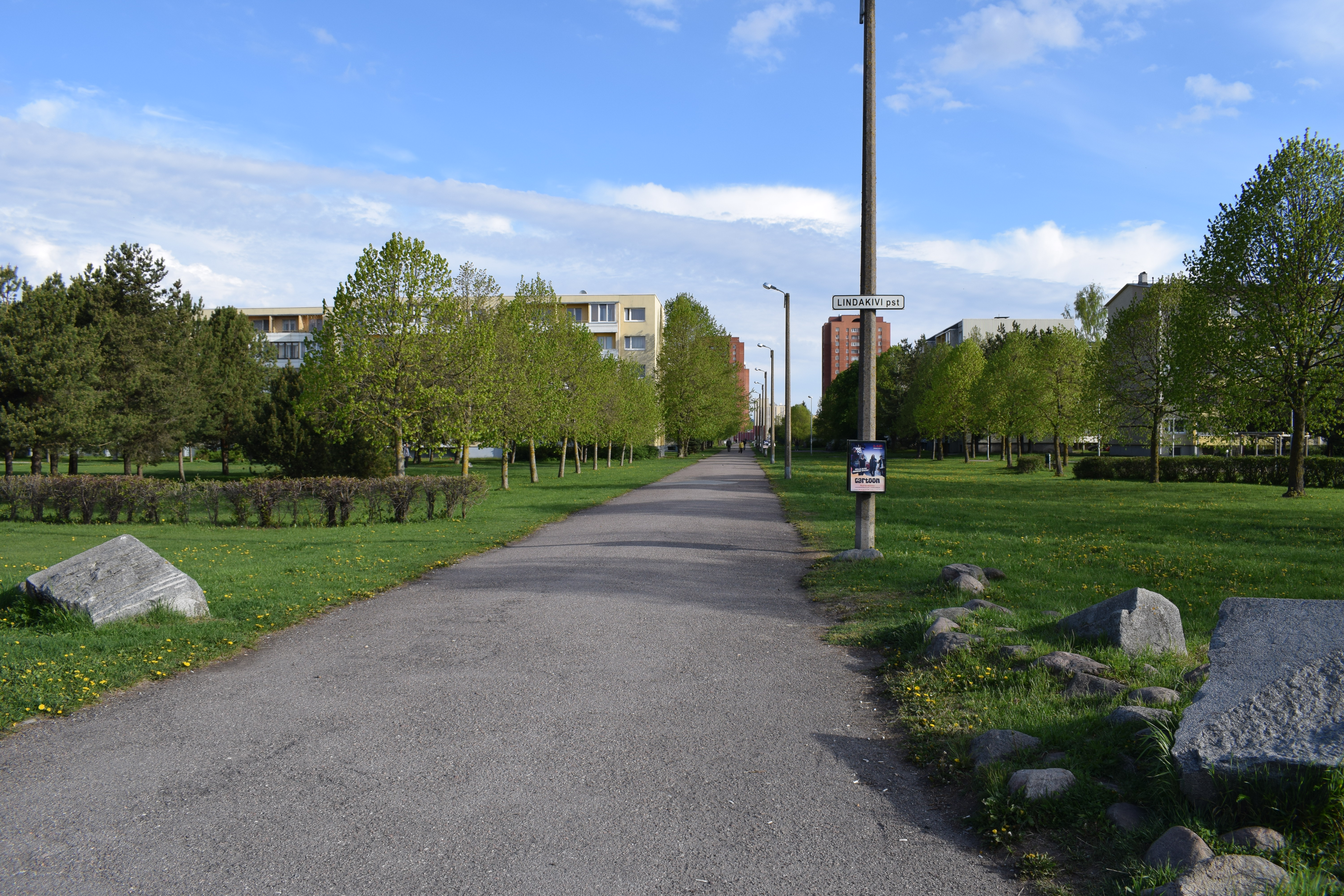 Lindakivi puiestee